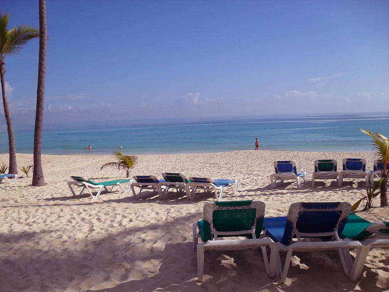 Punta Cana beach